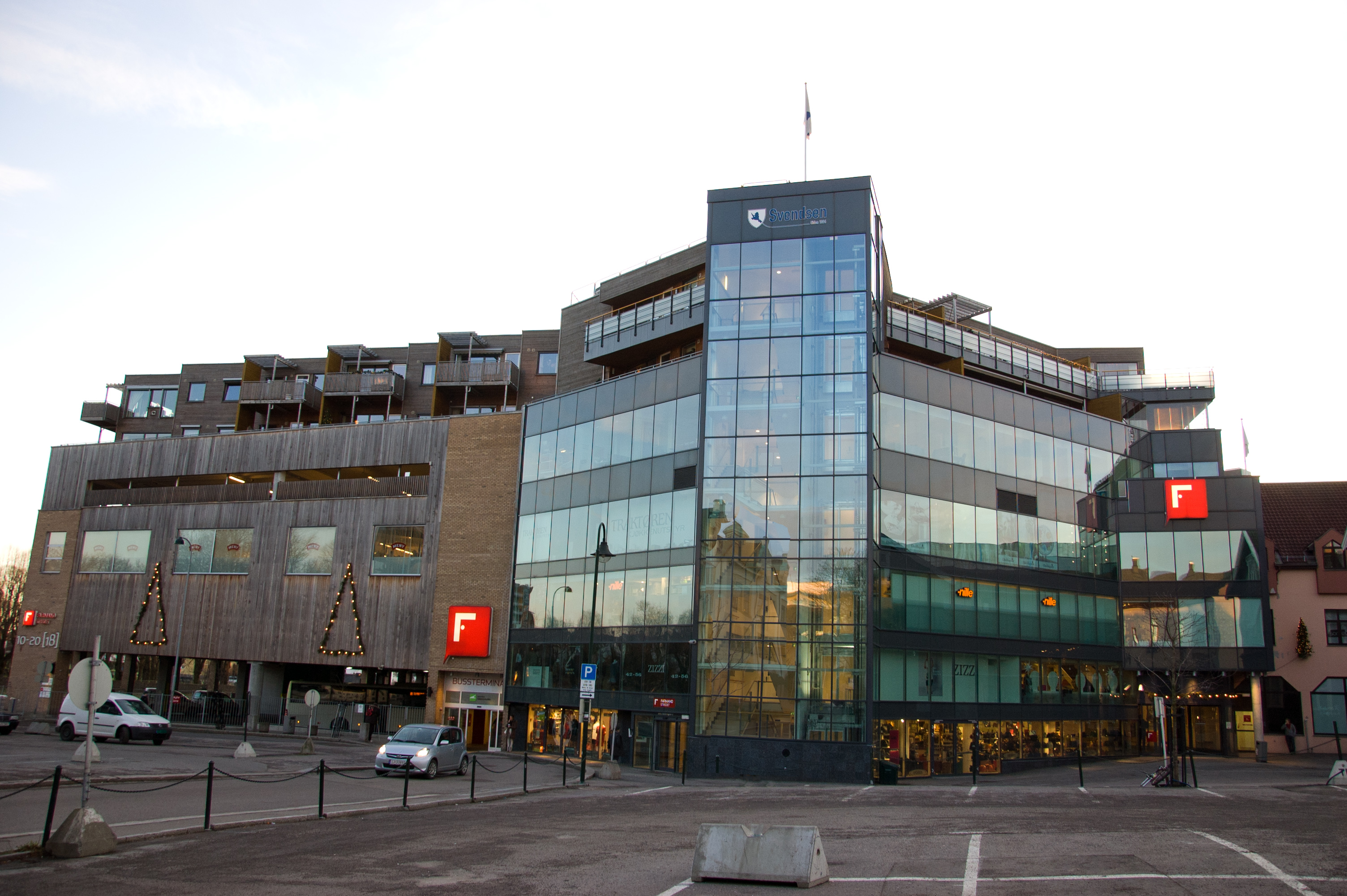 Farmandstredet shopping mall in Tønsberg, Vestfold, Norway